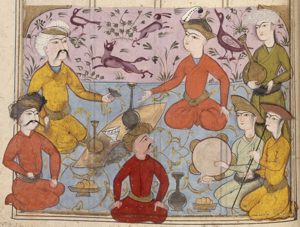 Court of Ardashir III (Shahnameh).